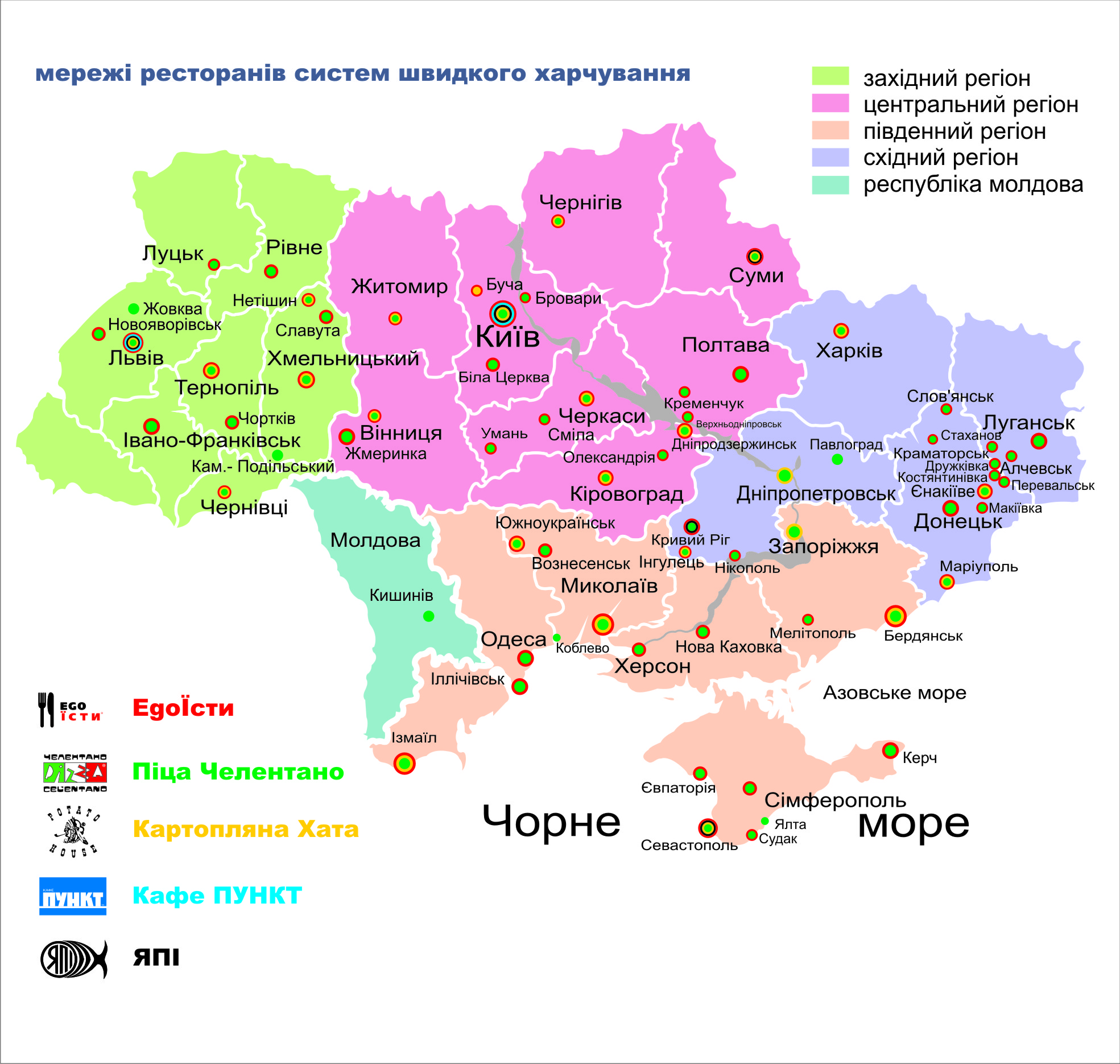 Map